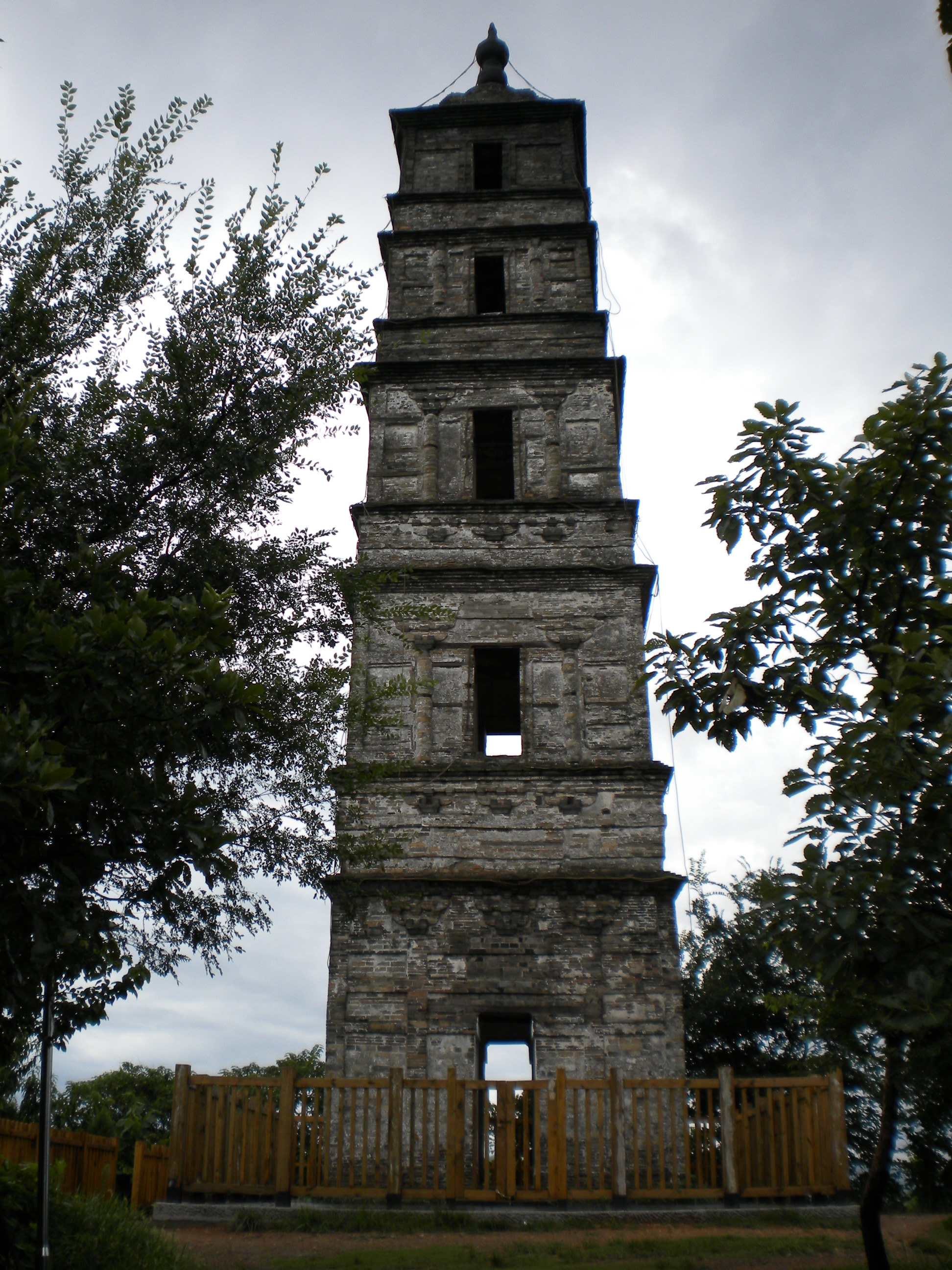 Gongchen Pagoda, Lin'an, Hangzhou, China